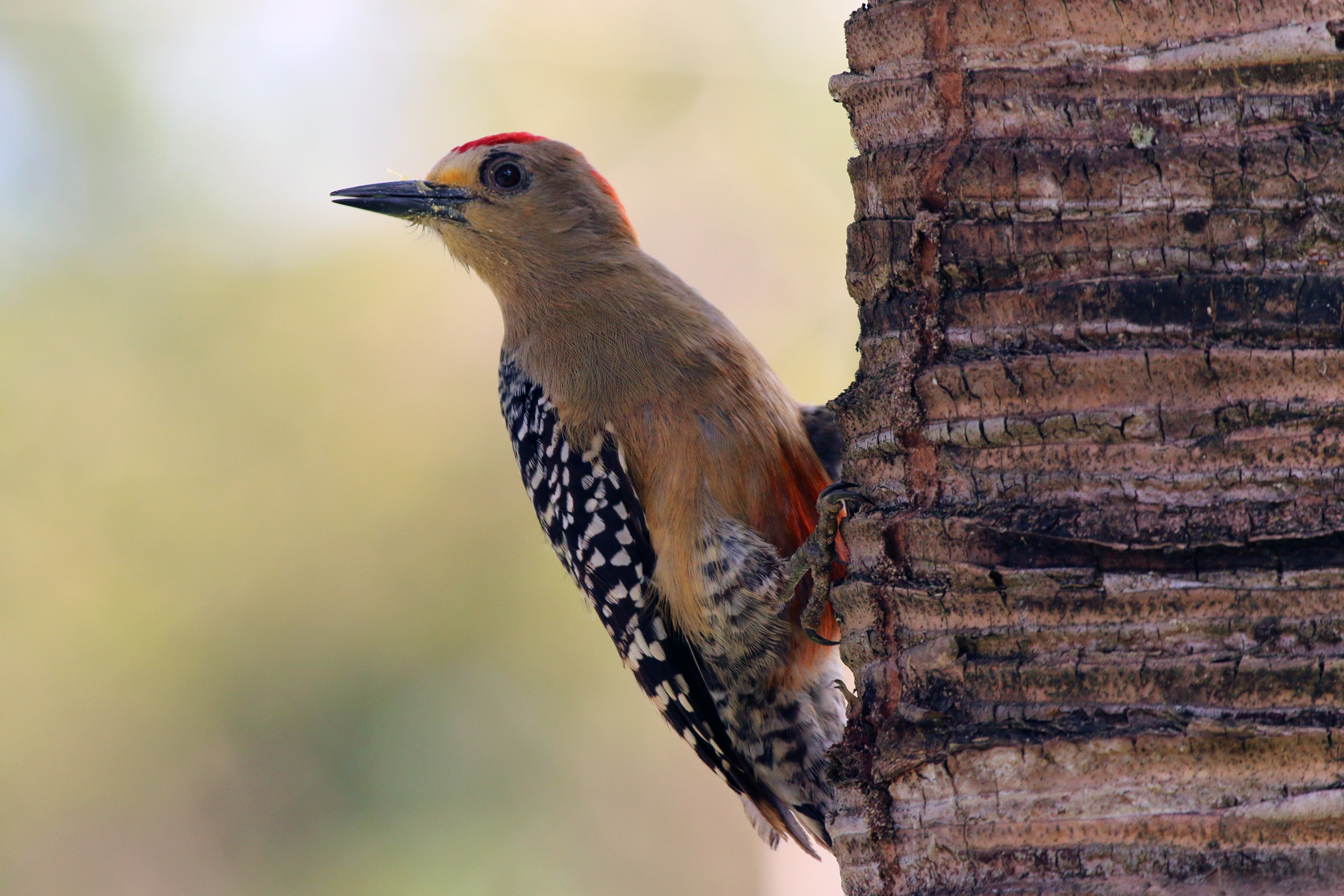 Red-crowned woodpecker (Melanerpes rubricapillus rubricapillus) male, Tobago